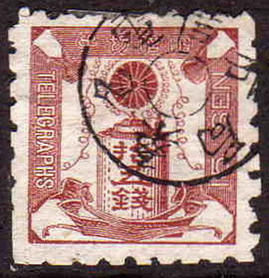 Japanese telegraph stamp, 15 sens, May 7, 1885